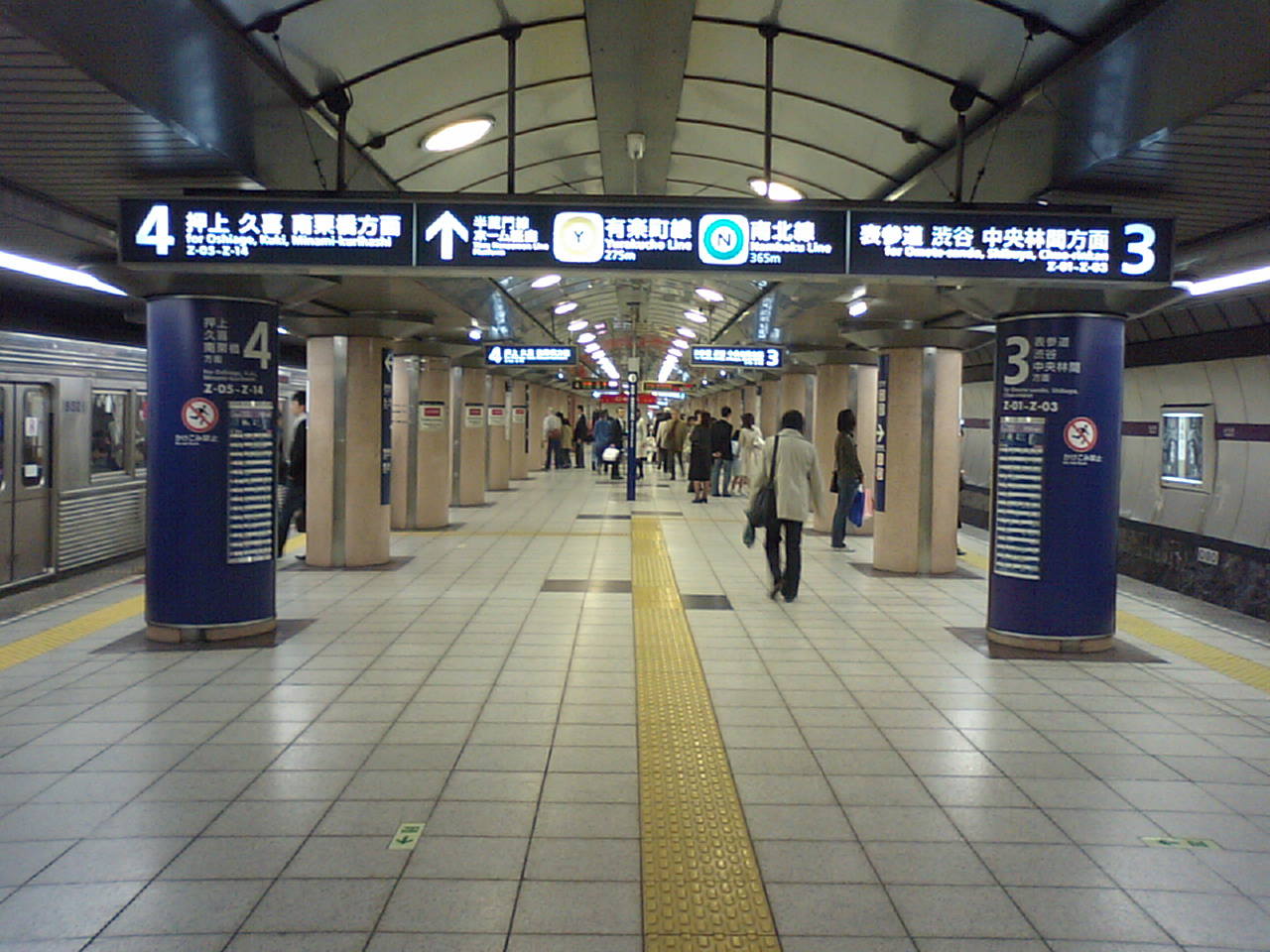 Platform of Nagatachō Station (Tokyo Metro Hanzomon Station).